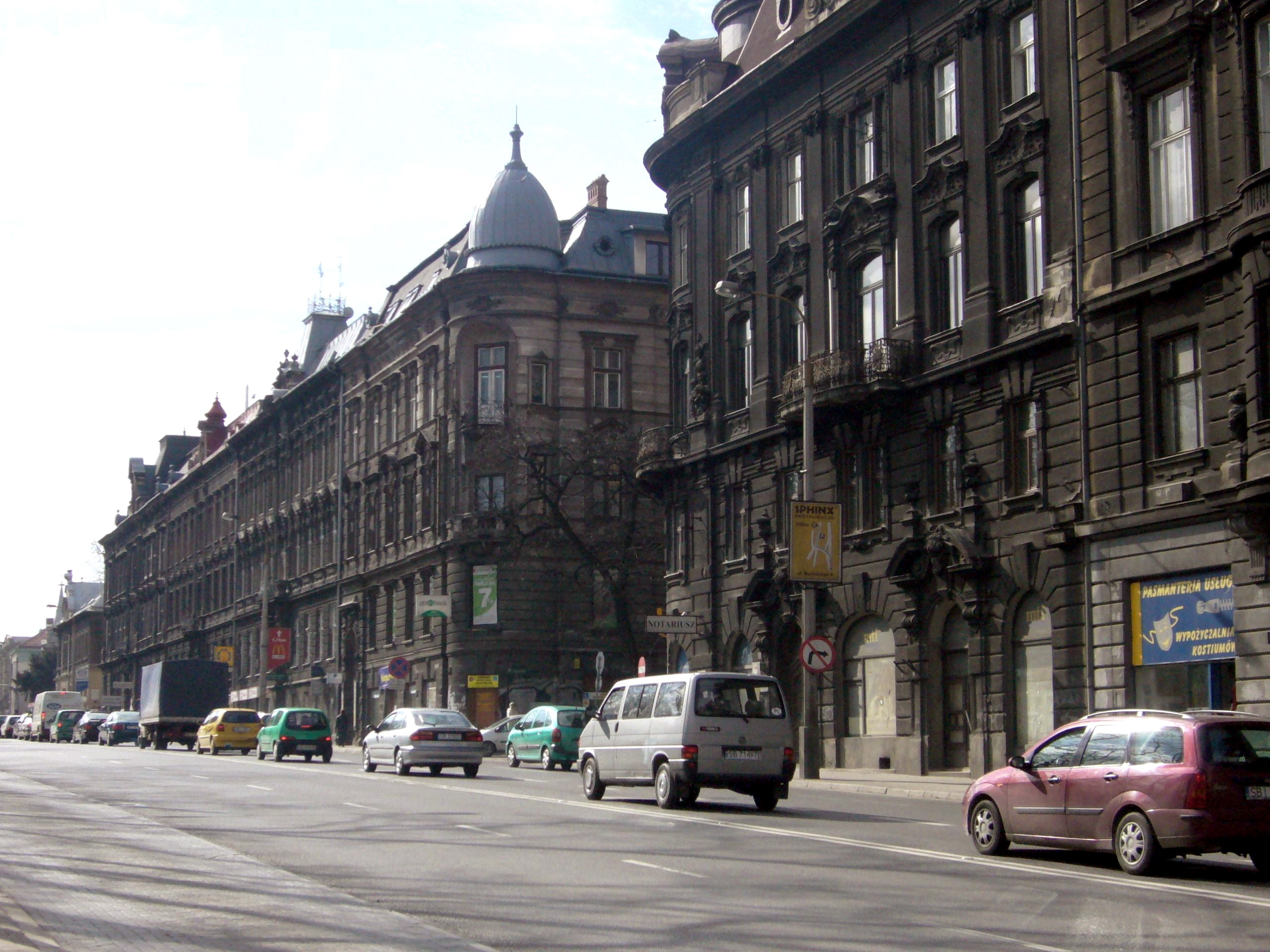 3 Maja Street in Bielsko-Biała, Poland.